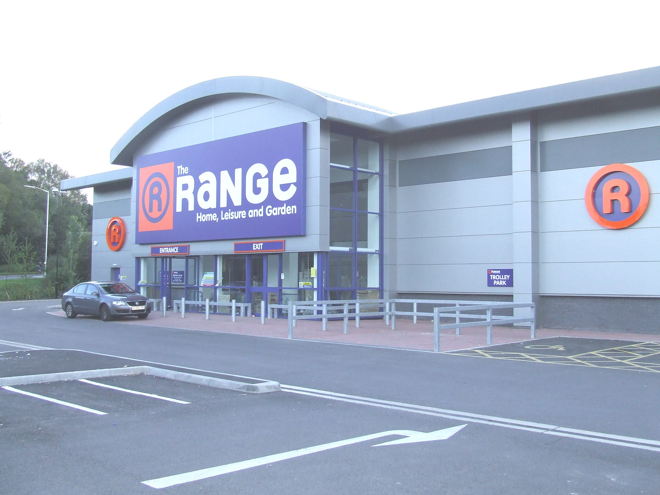 Store front for The Range Home and Leisure Andover